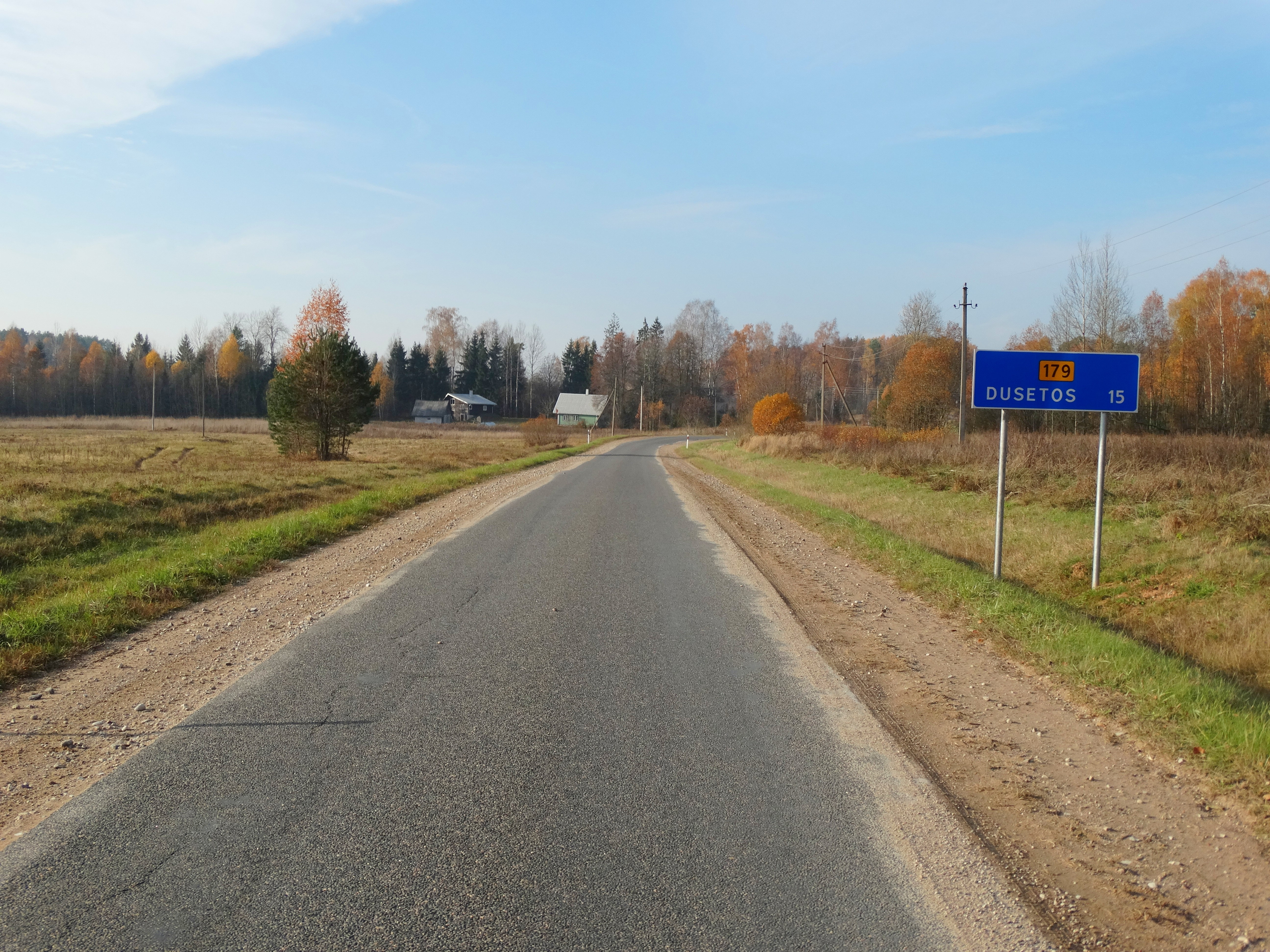 Road 179 by Degučiai, Zarasai district, Lithuania